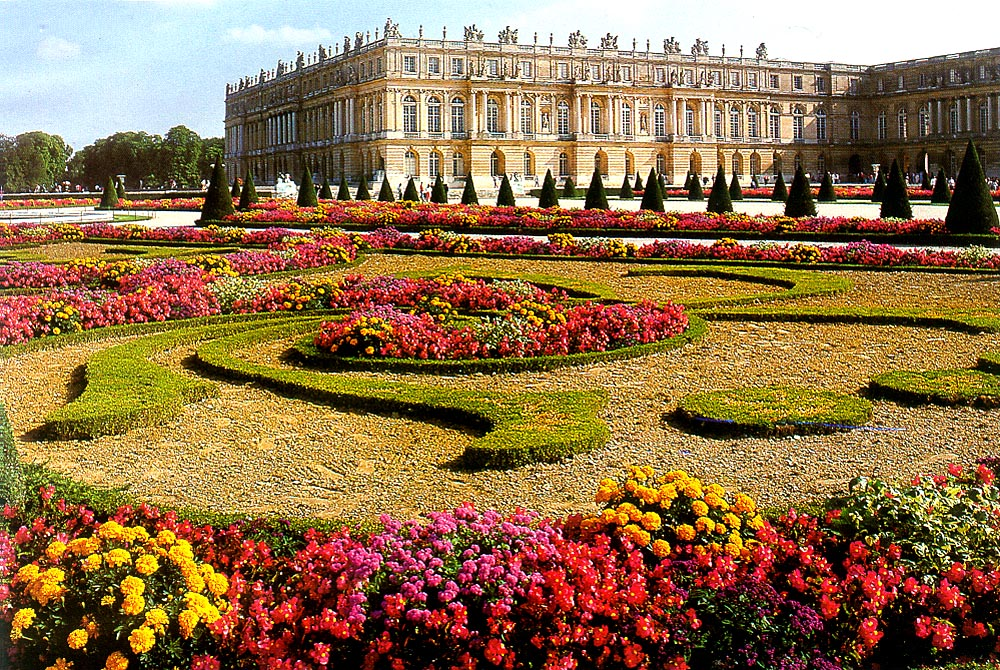 Versailles, the Chateau, exterior facade, views from southwest